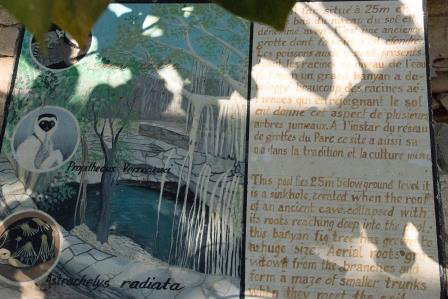 sign at the banyan tree site on a hiking trail is Tsimanampetsotsa National Park